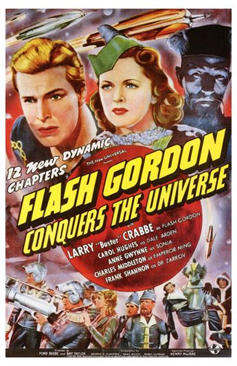 Original movie poster for the film serial Flash Gordon Conquers the Universe